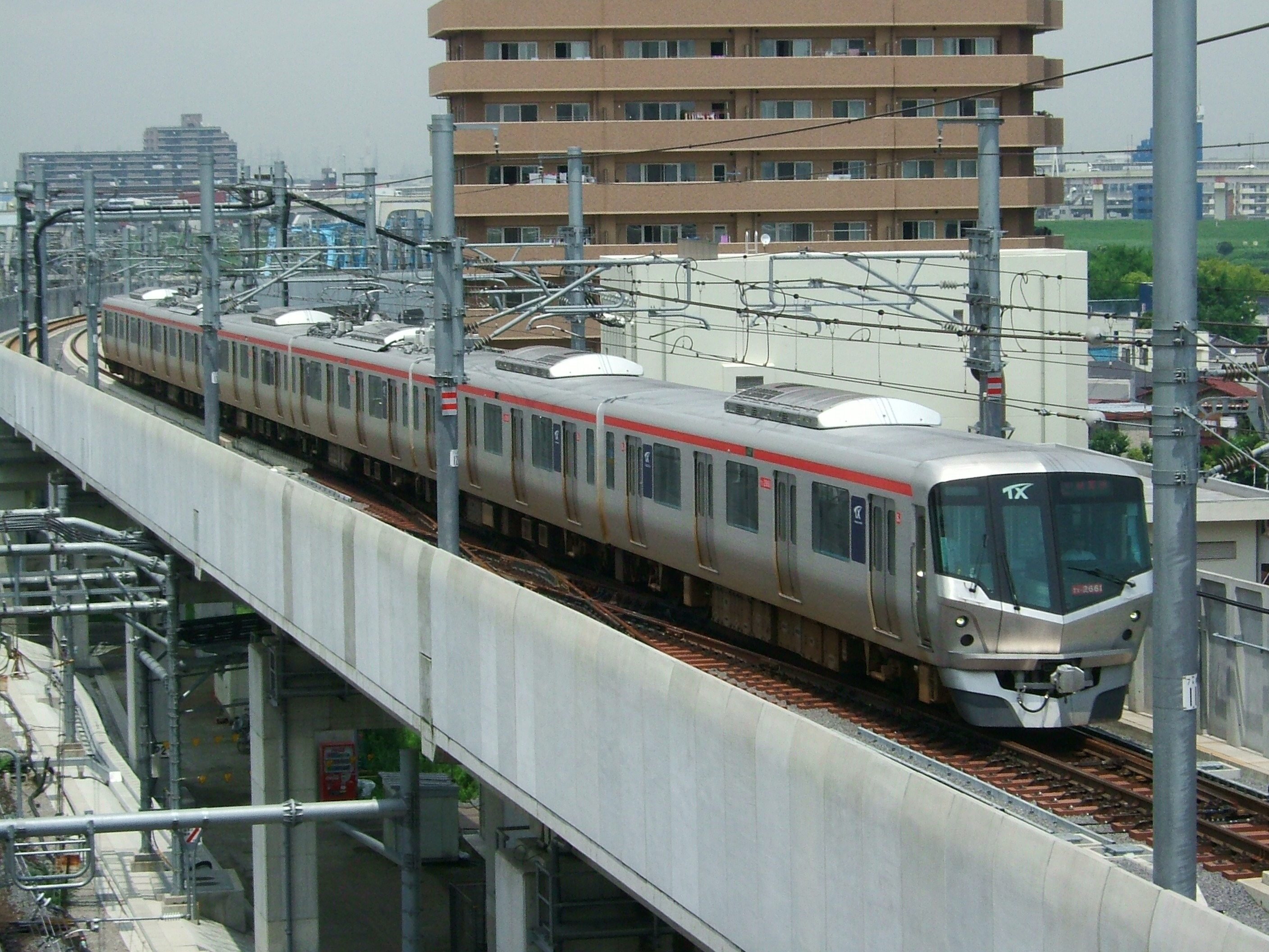 Metropolitan Intercity Railway series TX-2000 (trial run before opening)